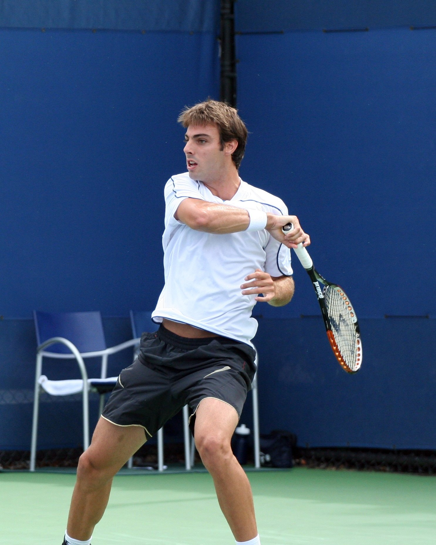 U.S. Open Monday, Aug. 31, 2009